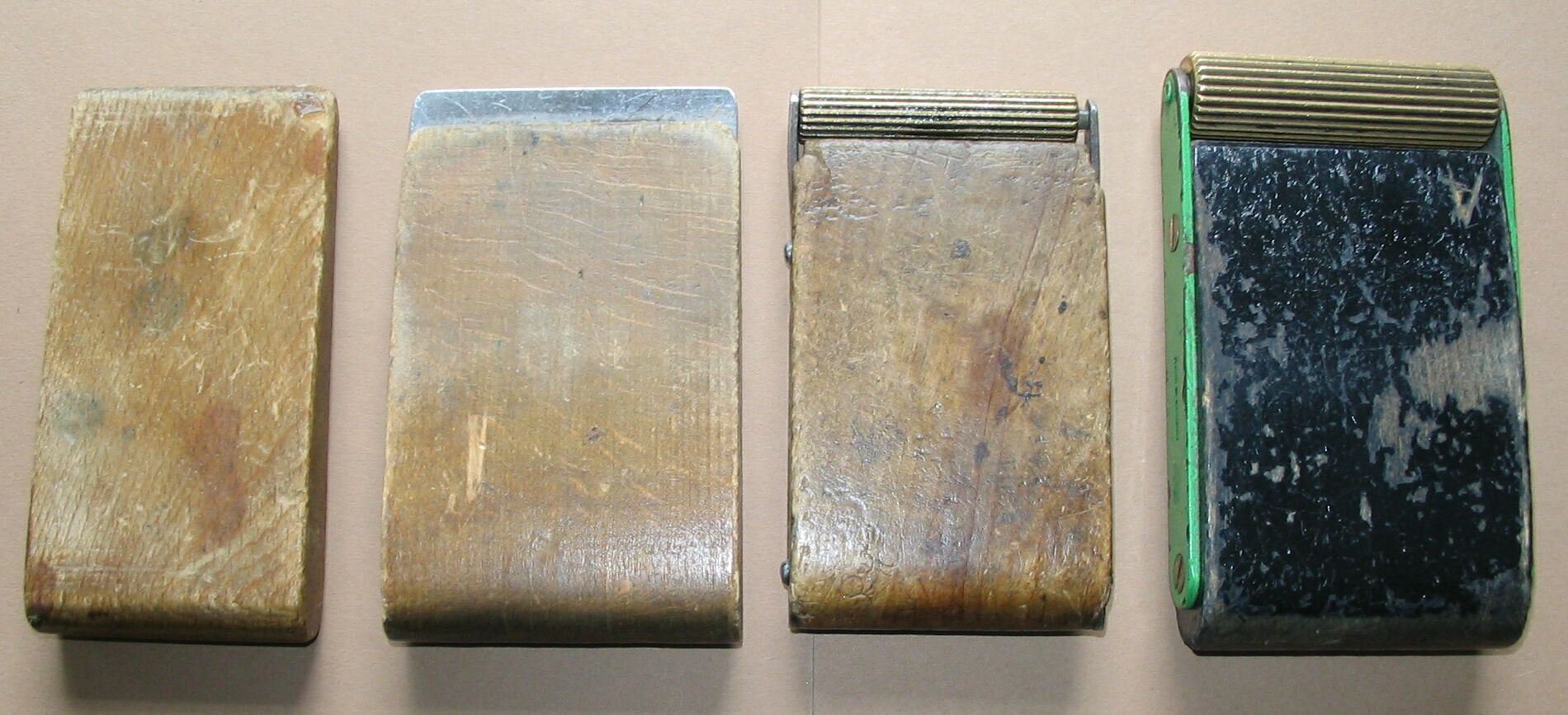 Furriers tools